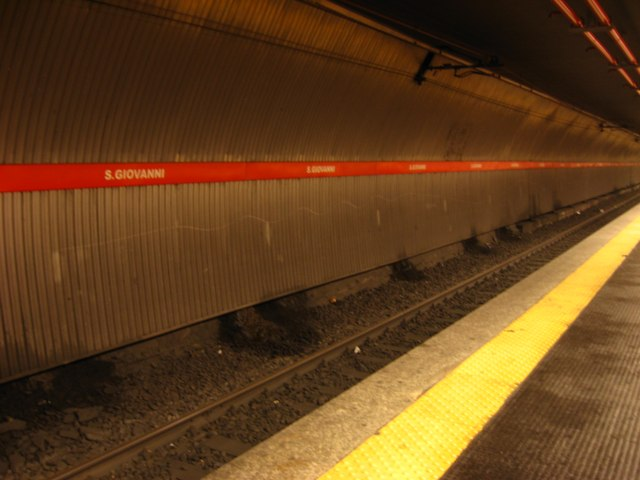 San Giovanni Railway Station in Rome.